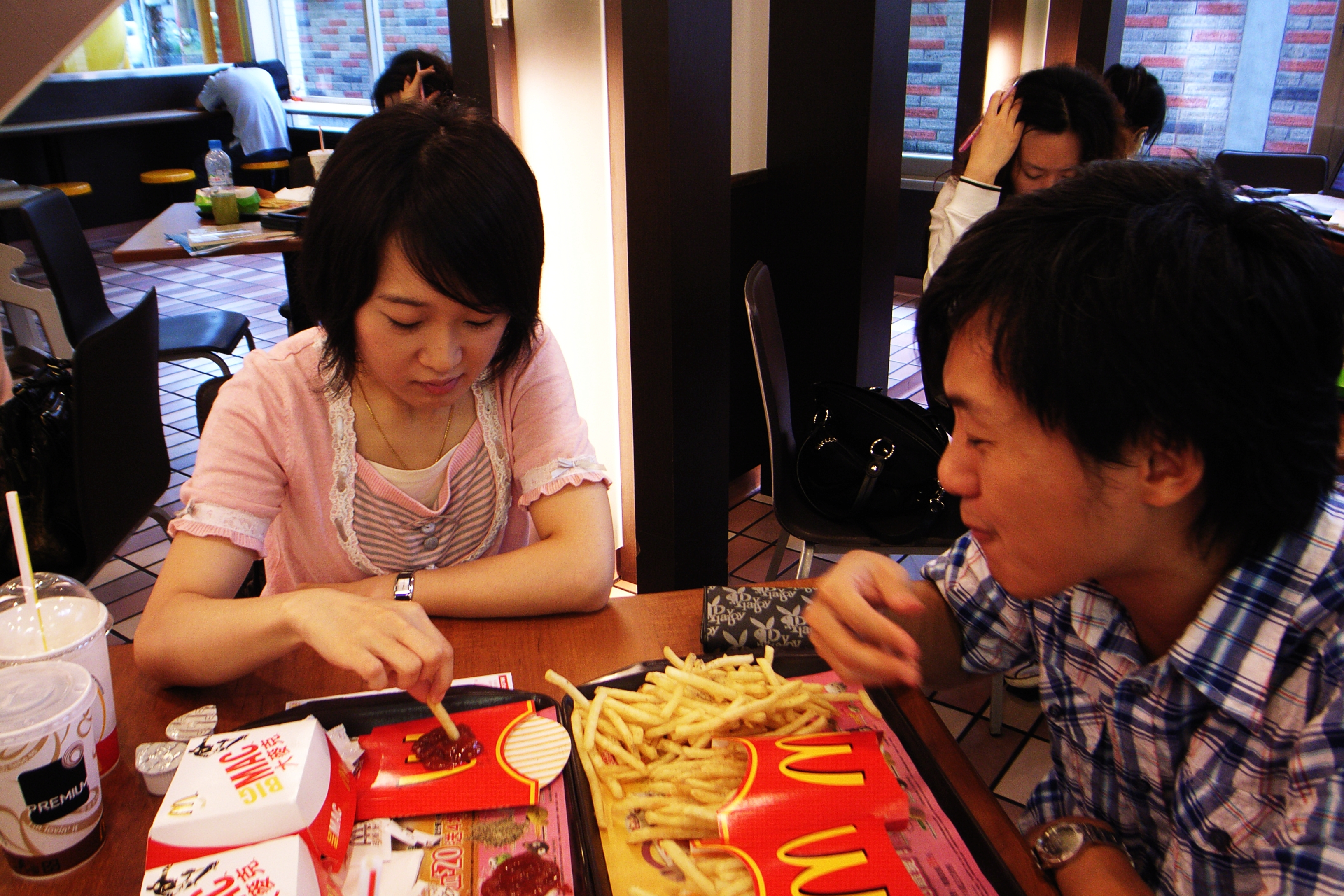 Two guests are eating French fries in a McDonald's restaurant.